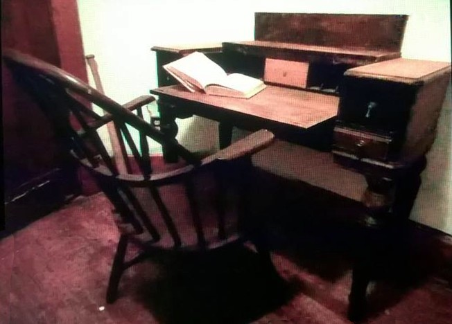 A 1880's writing desk refinished,made in Rochester New York